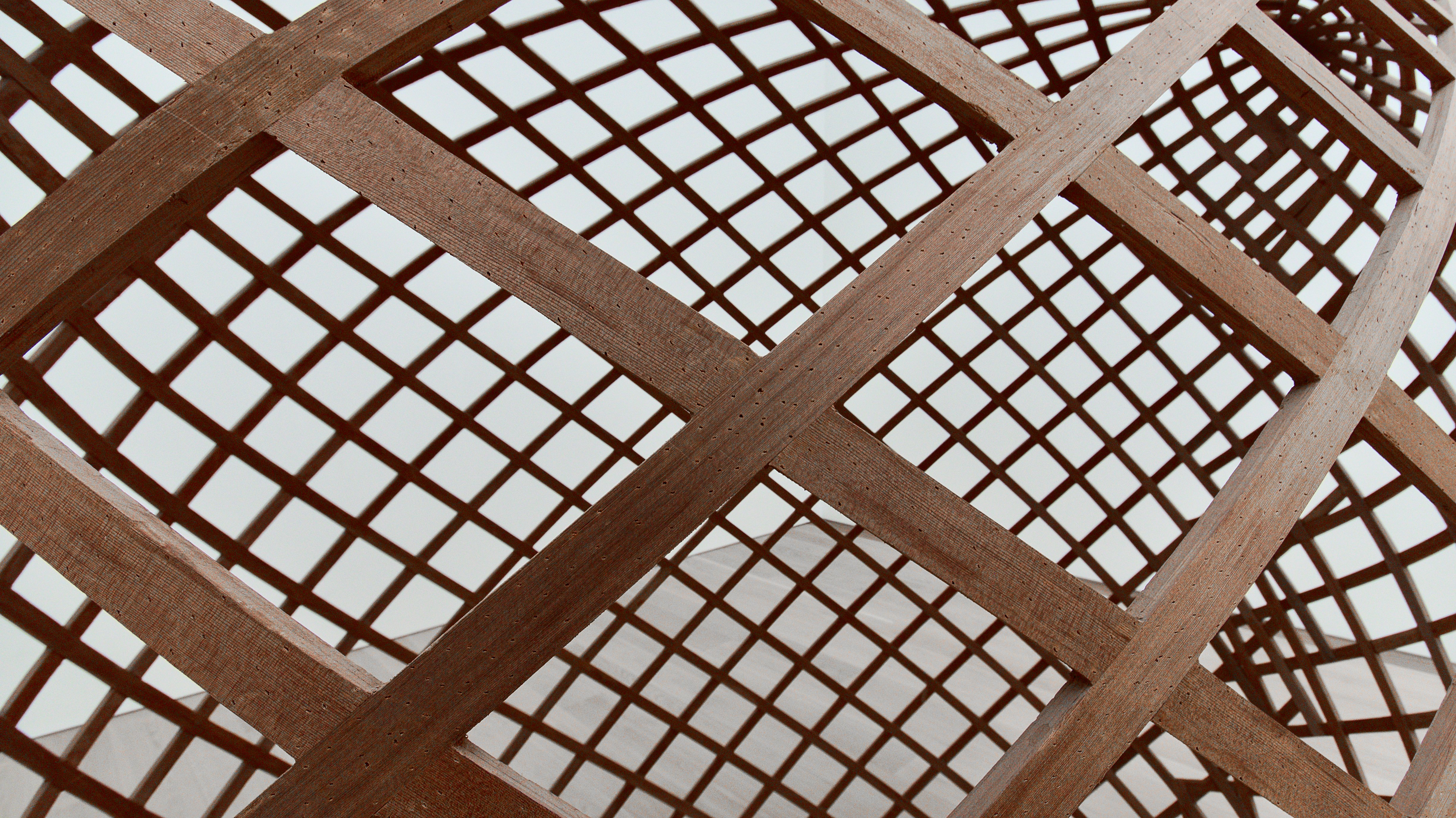 Martin Puryear - Brunhilde (1998). Museum Voorlinden The Hague.